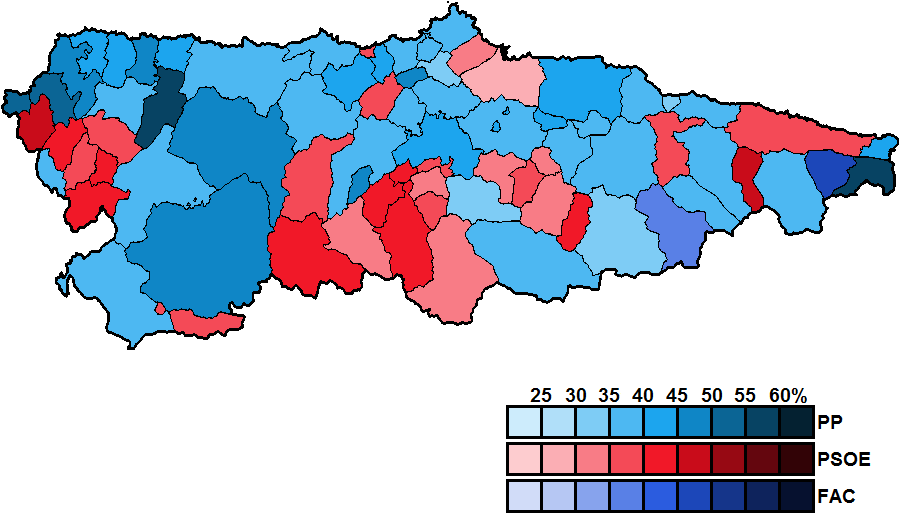 Most-voted party in Asturias municipalities, showing vote share obtained, in the Spanish general election, 2011.